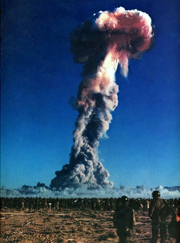 Operation Tumbler-Snapper - Shot Dog - Nevada Test Site. Mushroom Cloud and soldiers from exercise Desert Rock IV in the foreground. Type: 315m air burst. Yield: 19 kt.